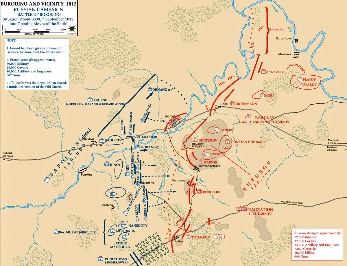 Portrayal of troop positions on the 7th September 1812 6:30